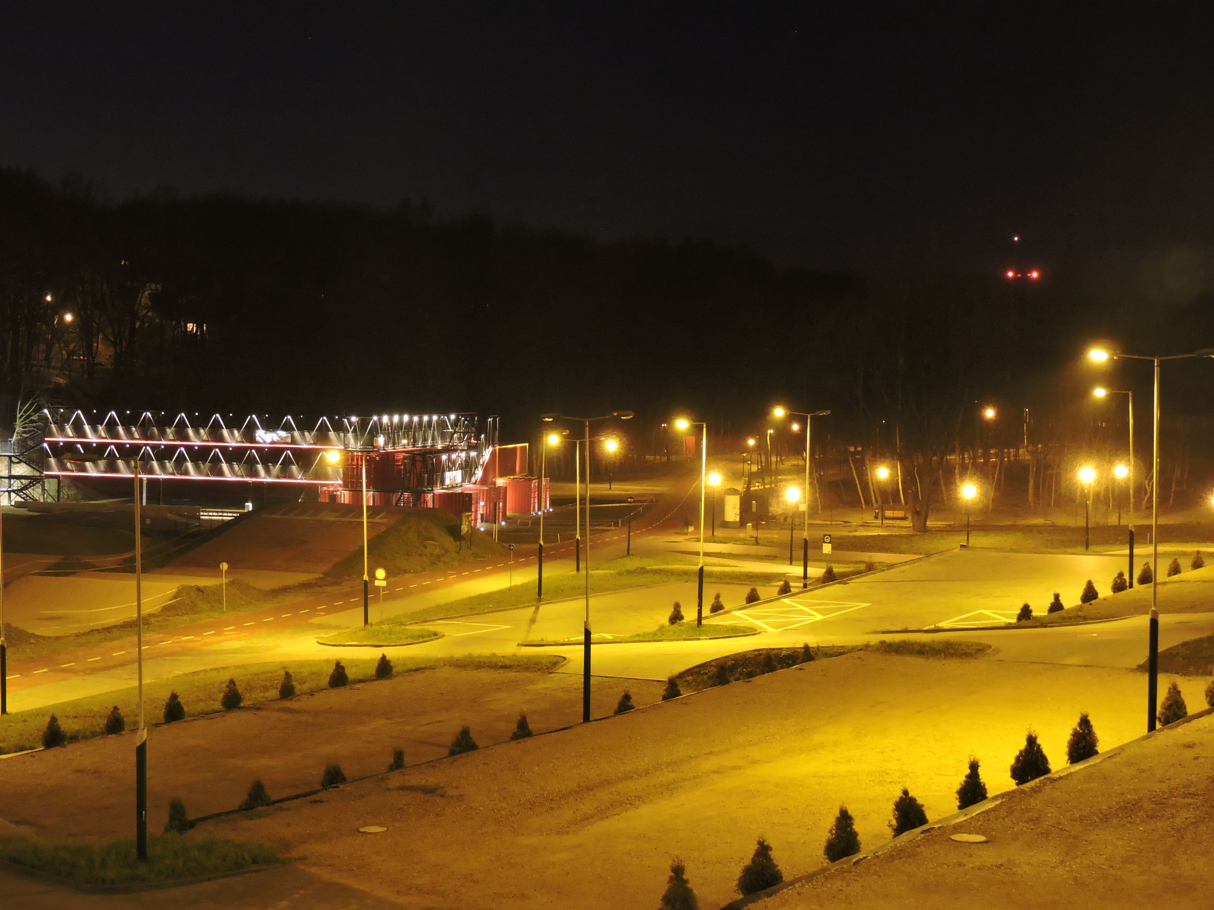 Park "Trzy Wzgórza" ("Three Hills") in Wodzisław Śląski, Silesia, Poland.